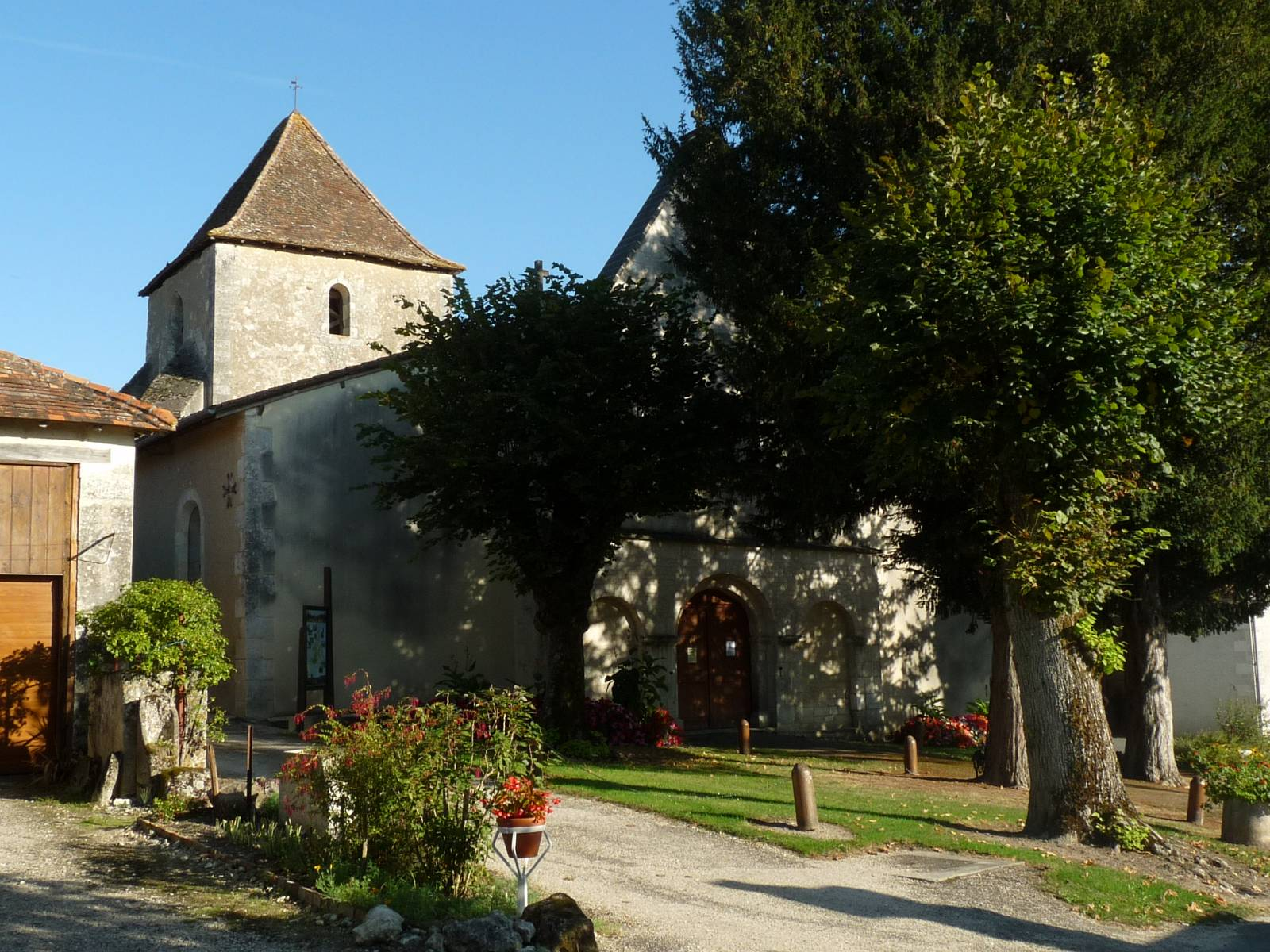 church